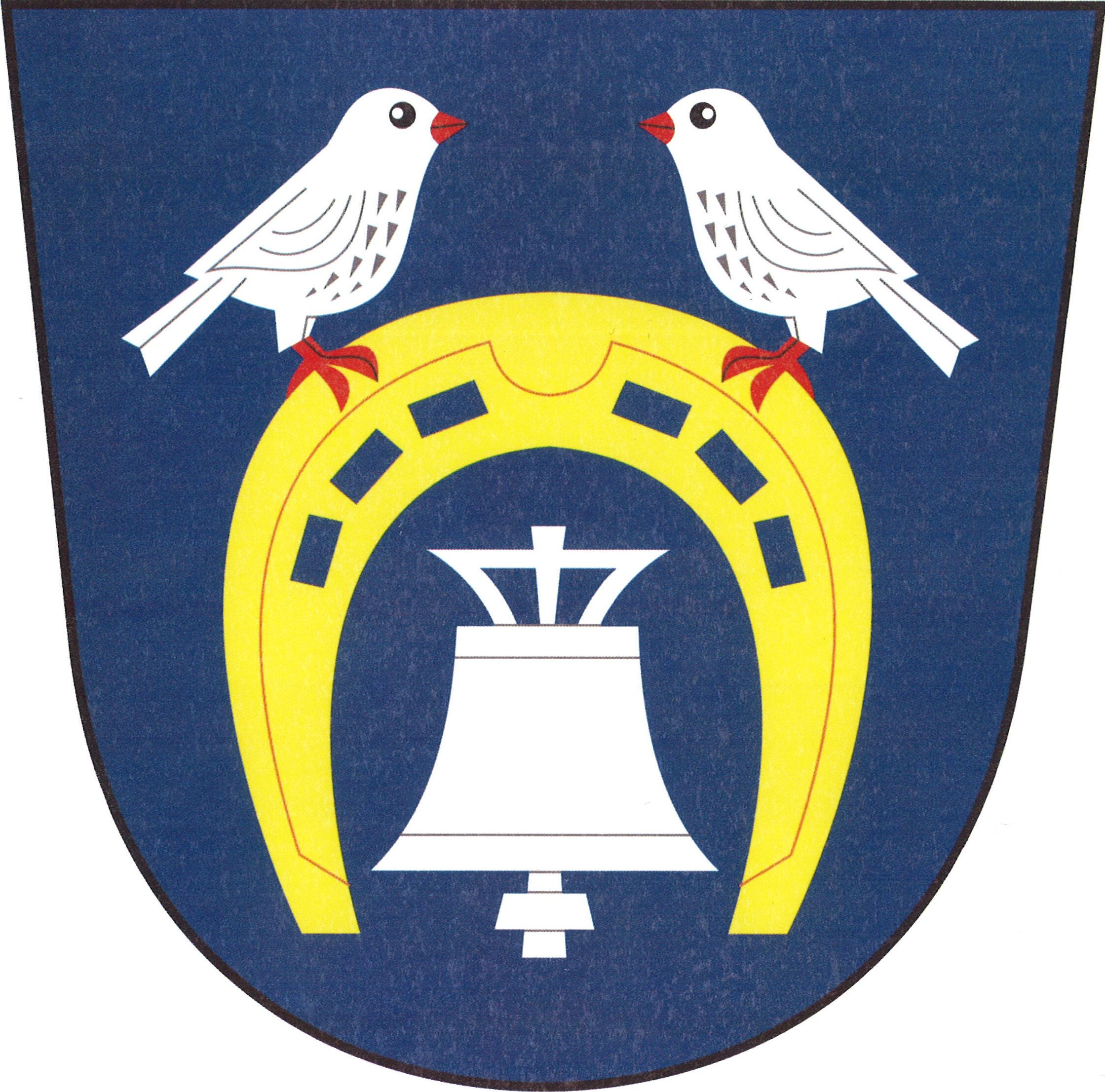 Coat of arms of Kvíčovice, Domažlice District